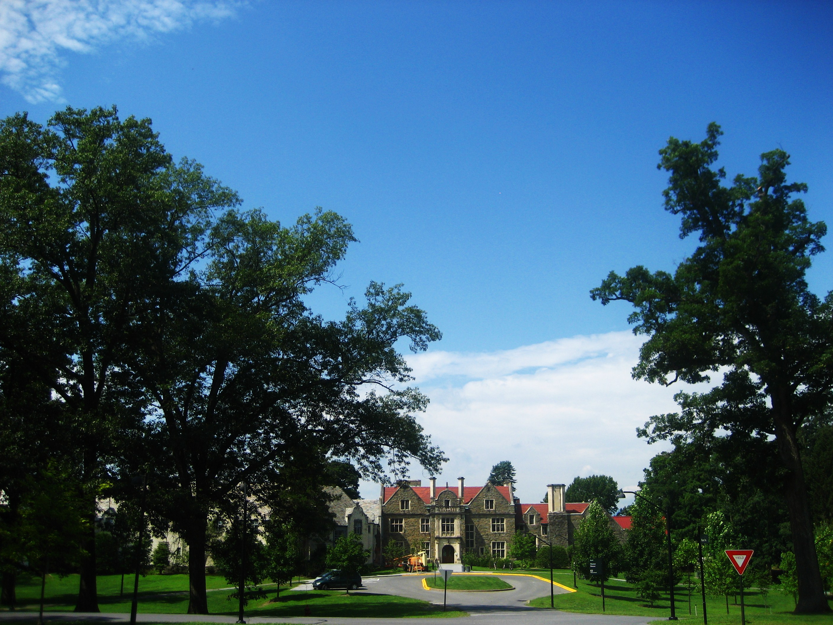 Ward Manor House at Bard College